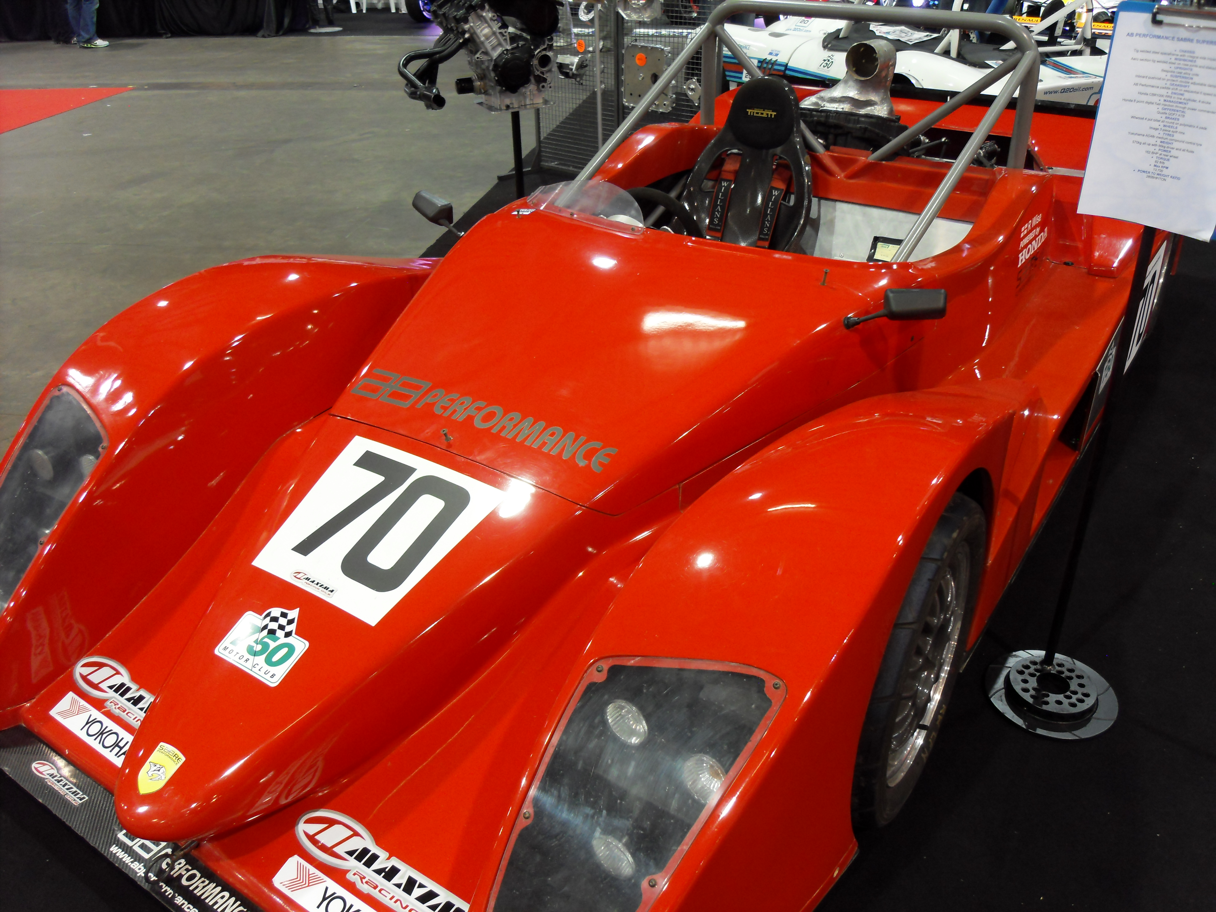 National Kit Car Show Stoneleigh 2011